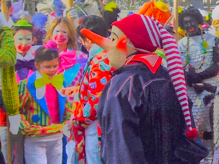 Costume de Long-né au Carnaval de Malmedy.